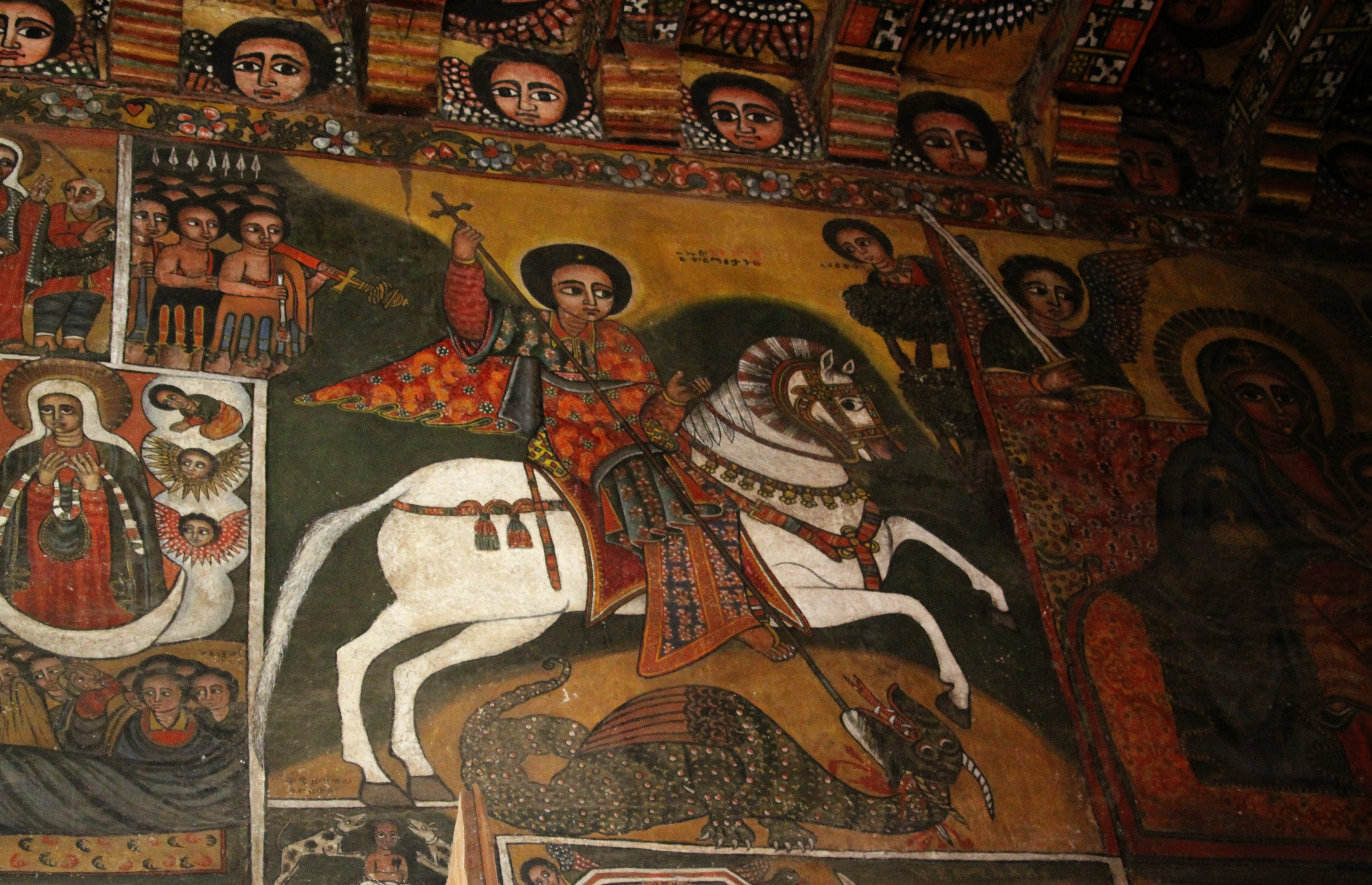 Saint George in Ethiopia